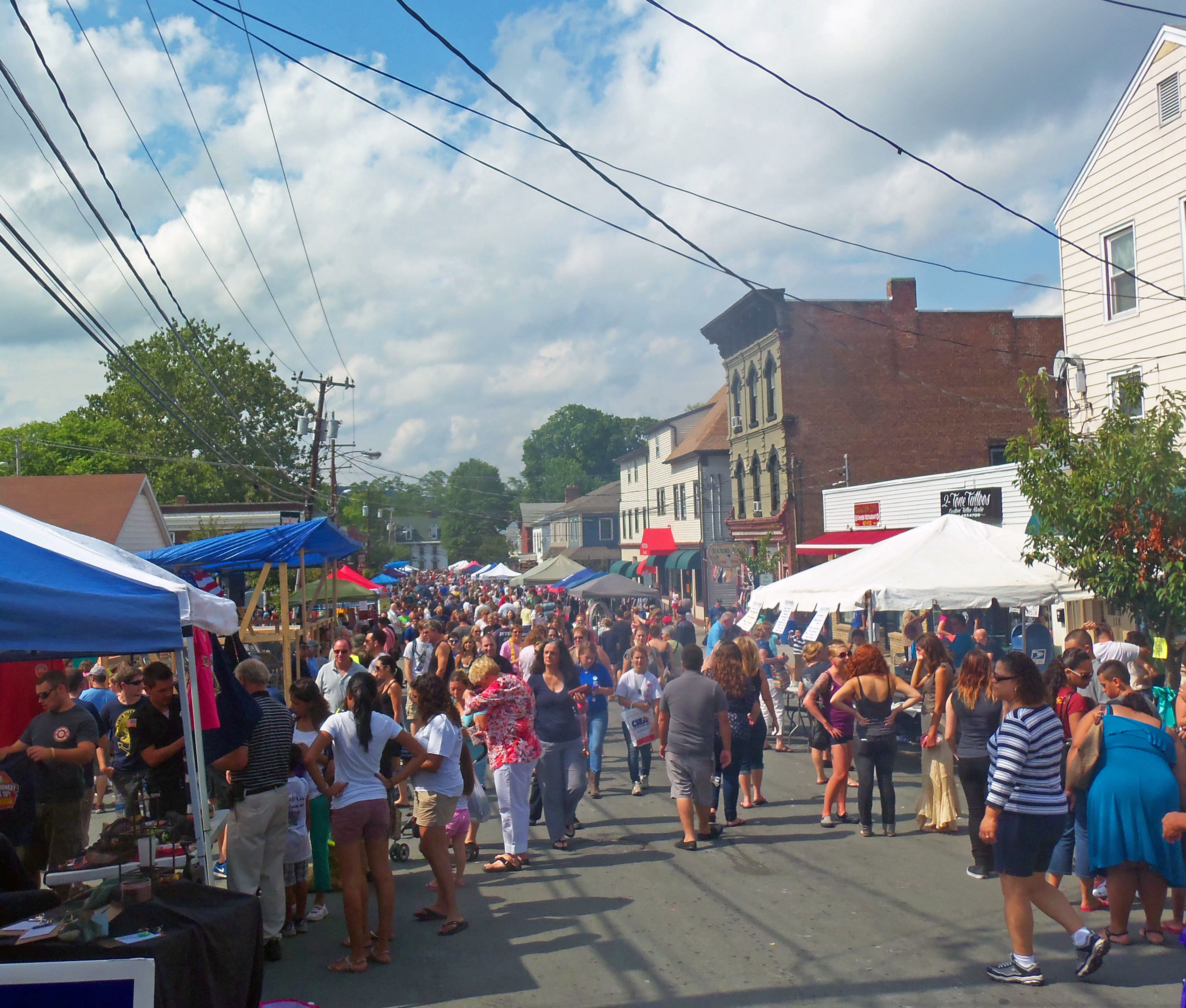 View west along Academy Street, Montgomery, NY, USA, during annual General Montgomery Day celebration